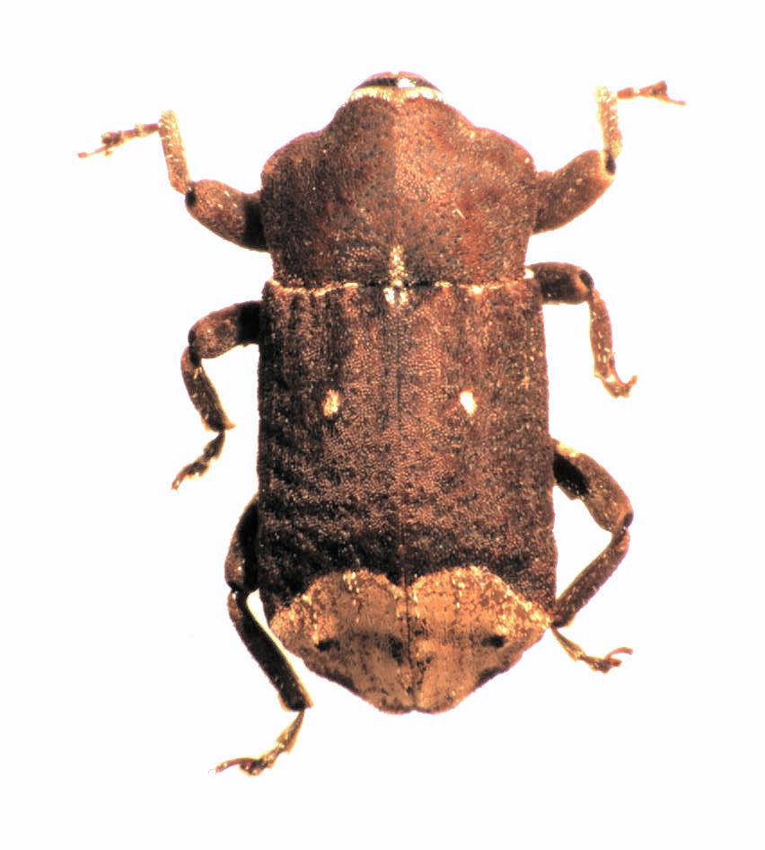 adult Ectopsis simplex